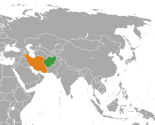 Map of the world showing Iran and Afghanistan, created for the Afghanistan-Iran relations article